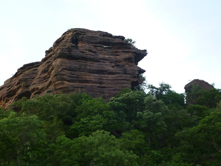 Ramagiri Fort Pictures